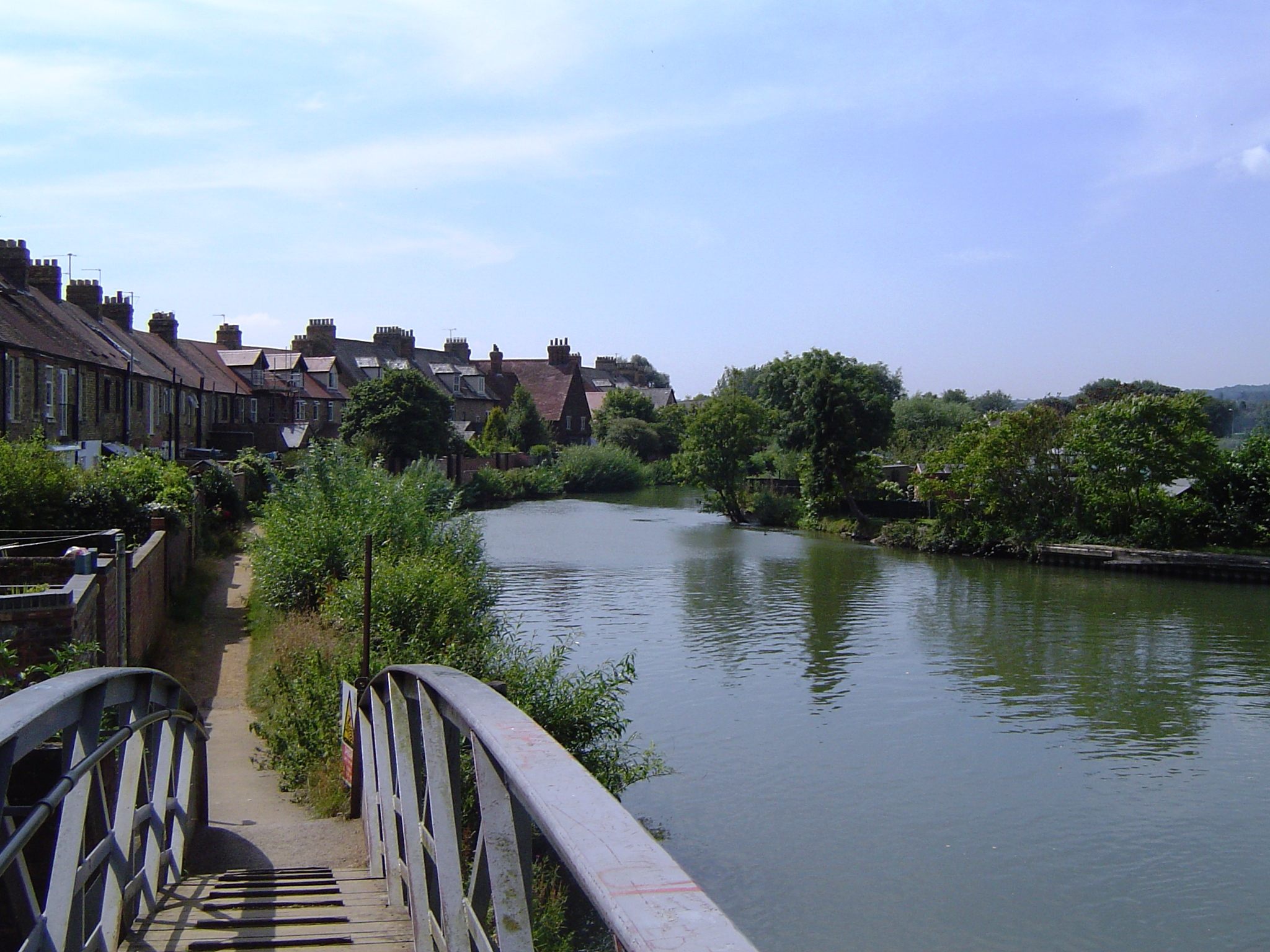 Backs of houses on the River Thames at Oxford